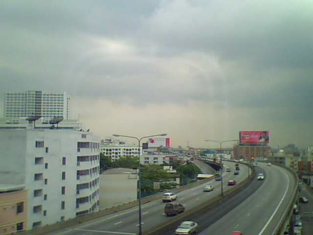 Sirat Expressway